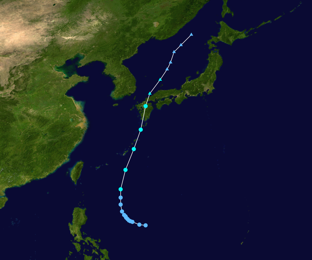 Tropical Depression Ellis 1989 track. Uses the color scheme from the Saffir-Simpson Hurricane Scale.